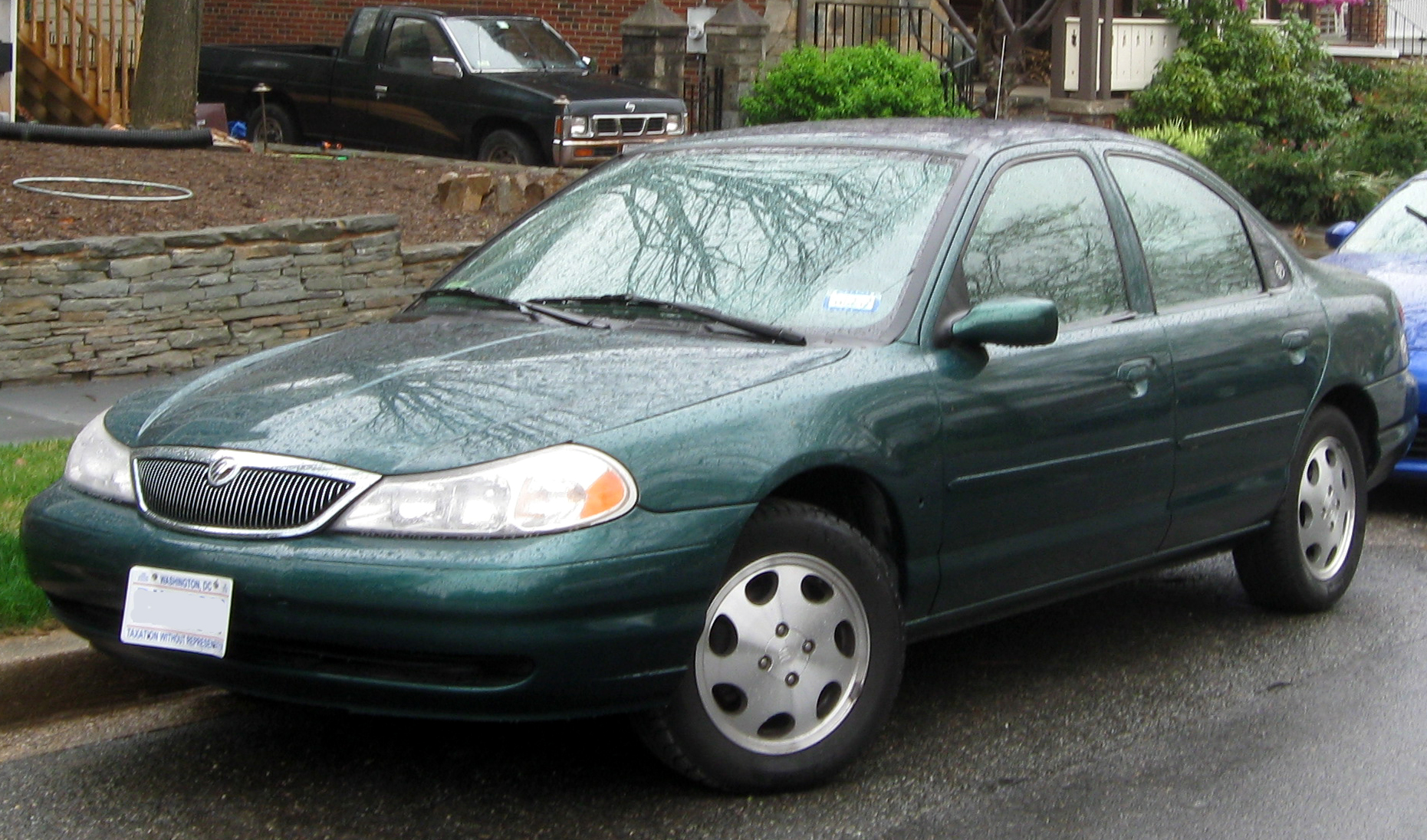 1998-2000 Mercury Mystique photographed in Washington, D.C., USA.